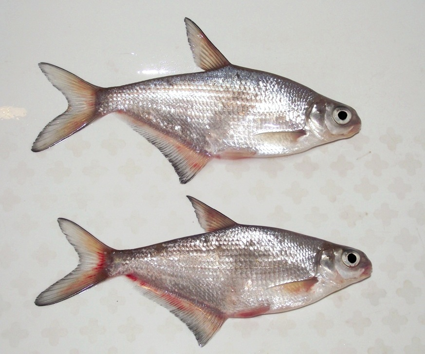 Ballerus sapa from Oka River, Moscow oblast, Russia